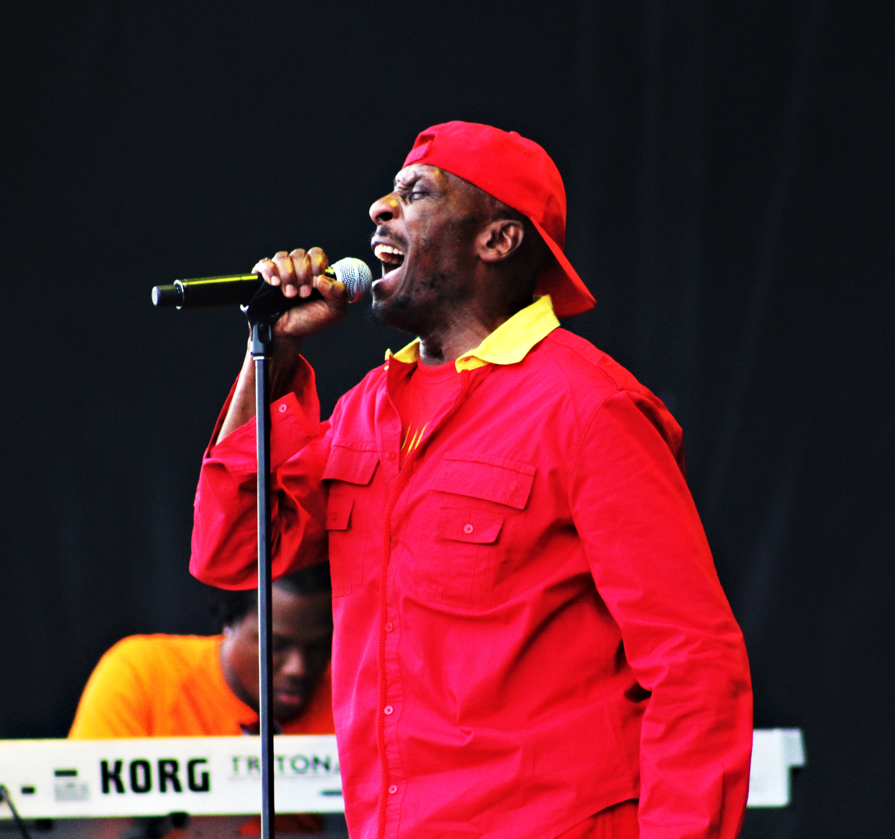 Jimmy Cliff performs at Osheaga Festival in Montreal, Québec, Canada, on 31 July 2010.